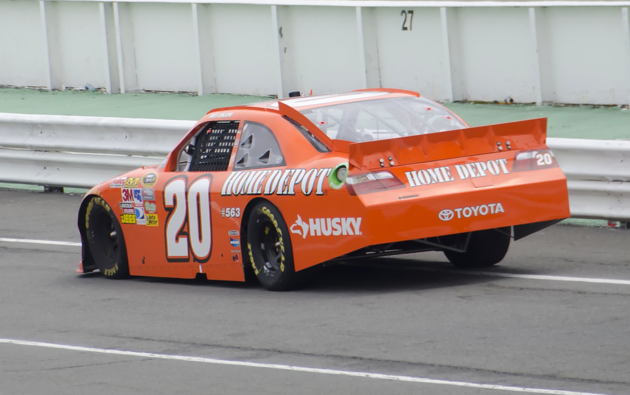 Joey Logano's No. 20 Home Depot Toyota at Pocono Raceway in 2011